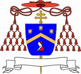 Coat of arms of Cardinal Eugenio Tosi